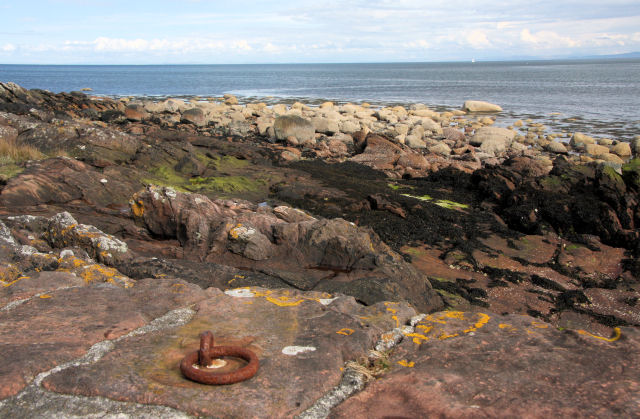 Mooring ring on quayside Looking out from Brodick Old Quay across the rocky foreshore.